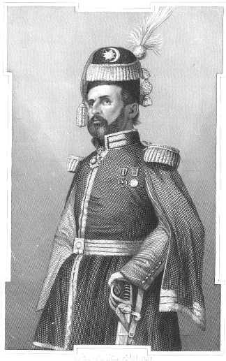 Michał Czajkowski, or Mehmet Sadık Paşa he was a Polish writer on Cossack themes and a political emigre who worked both for the resurrection of Poland.